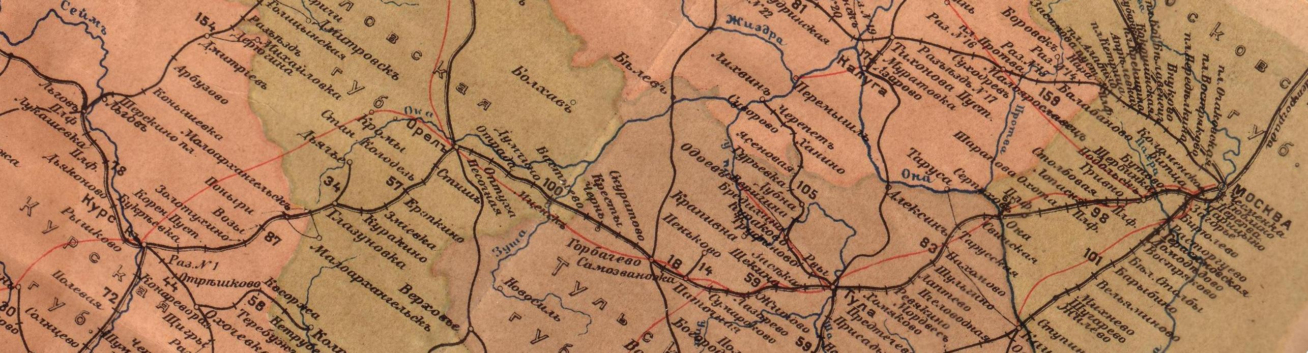 Moscow-Kursk railway on the map until 1917.